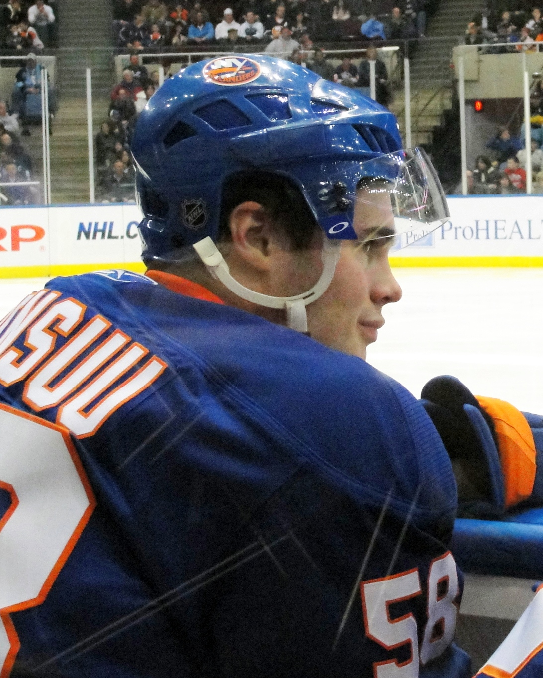 New York Islanders forward Jesse Joensuu on the bench during the February 11, 2011 "Brawl on Long Island" game against the Pittsburgh Penguins at Nassau Veterans Memorial Coliseum in Uniondale, NY.